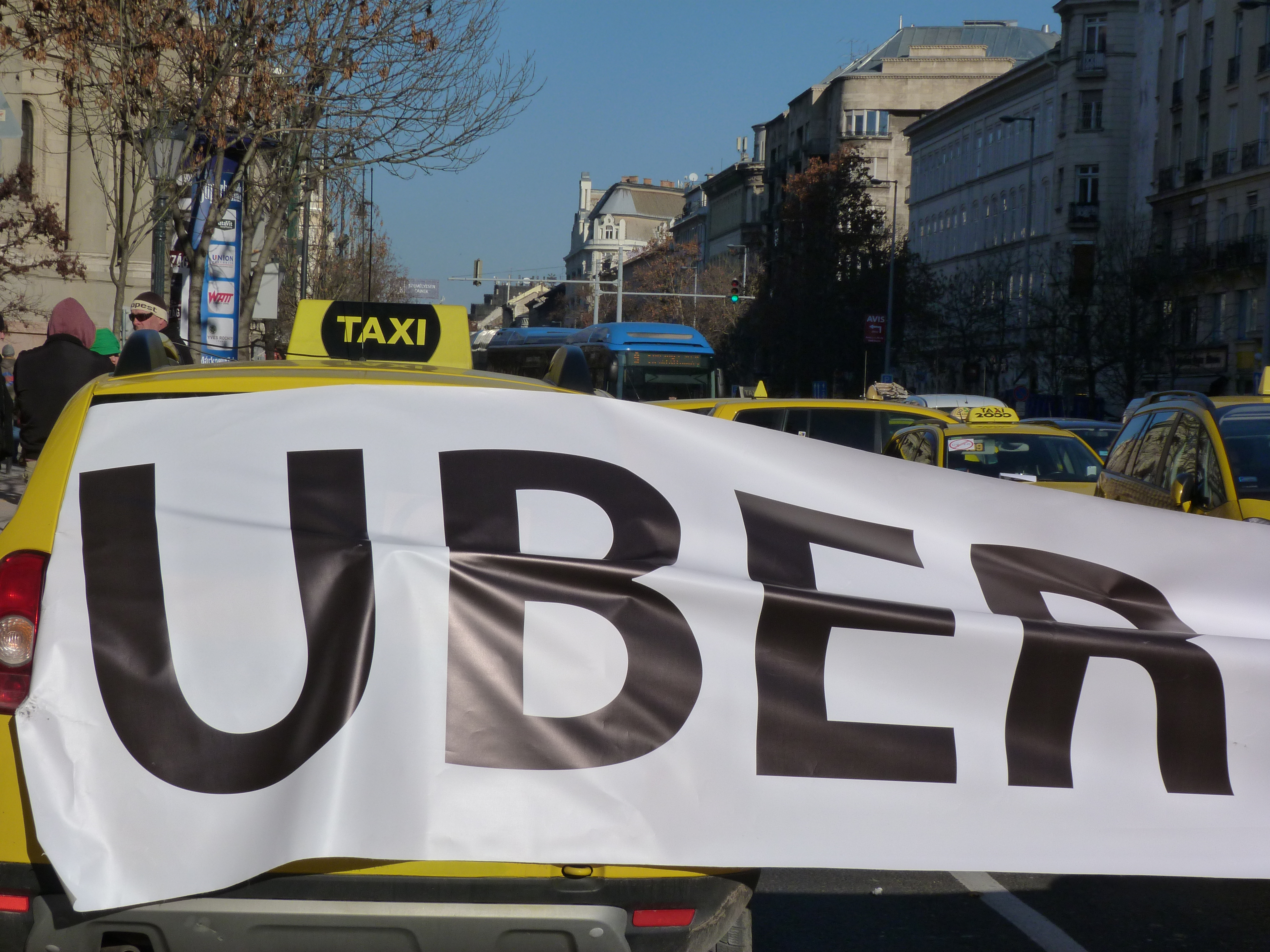 Live on the 18th of January, 2016. Károly körút. Downtown Budapest. Protest against Uber.